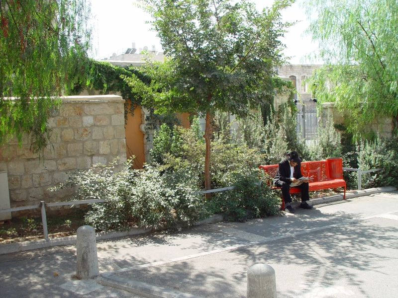 Jerusalem, Ohel shlomo neighborhood vers la route de Jaffa.